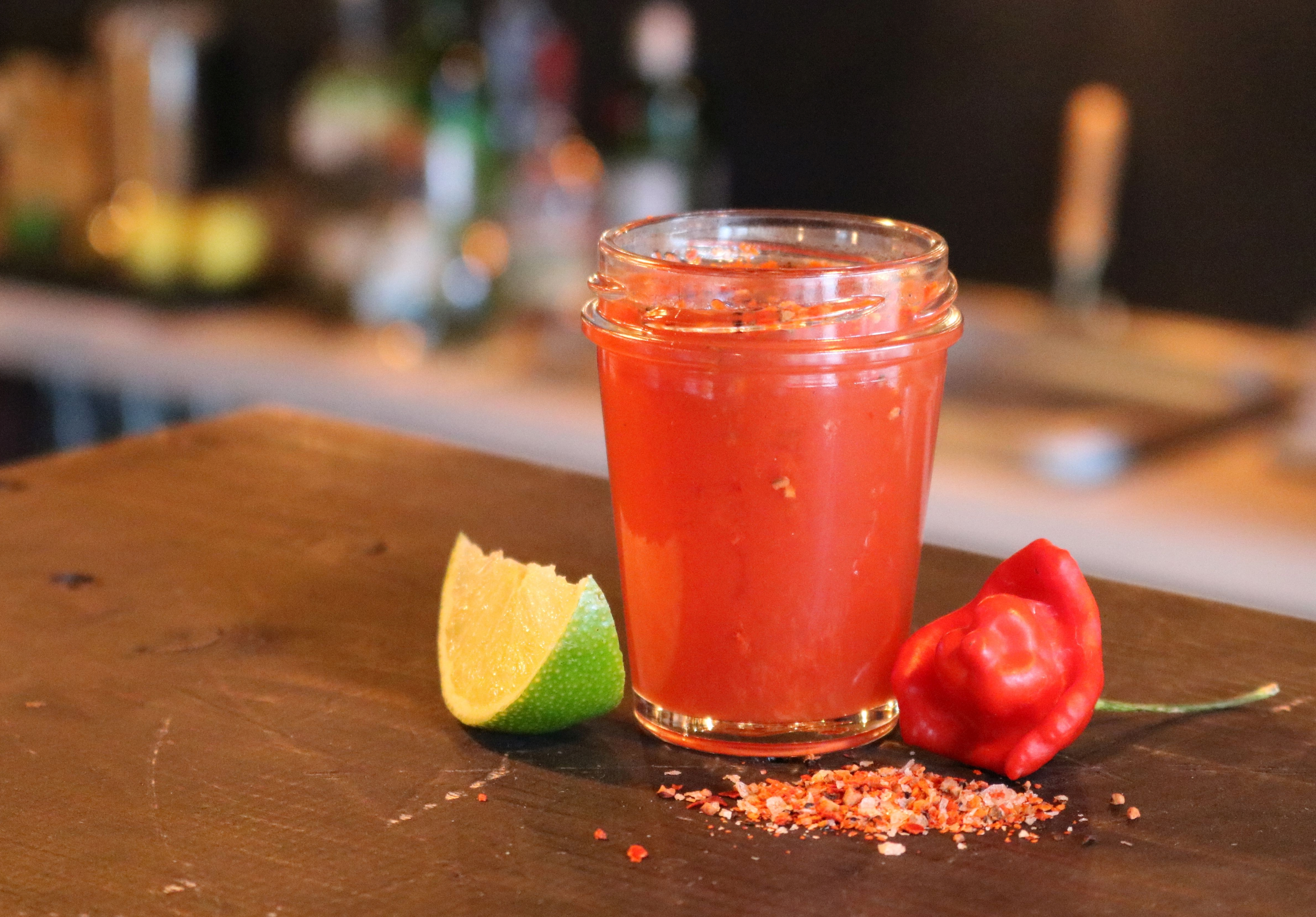 Mexikaner, a shot made of a spirit, sangrita, tomato juice and spices that originated in Hamburg.